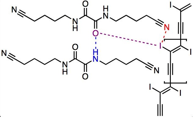 yep